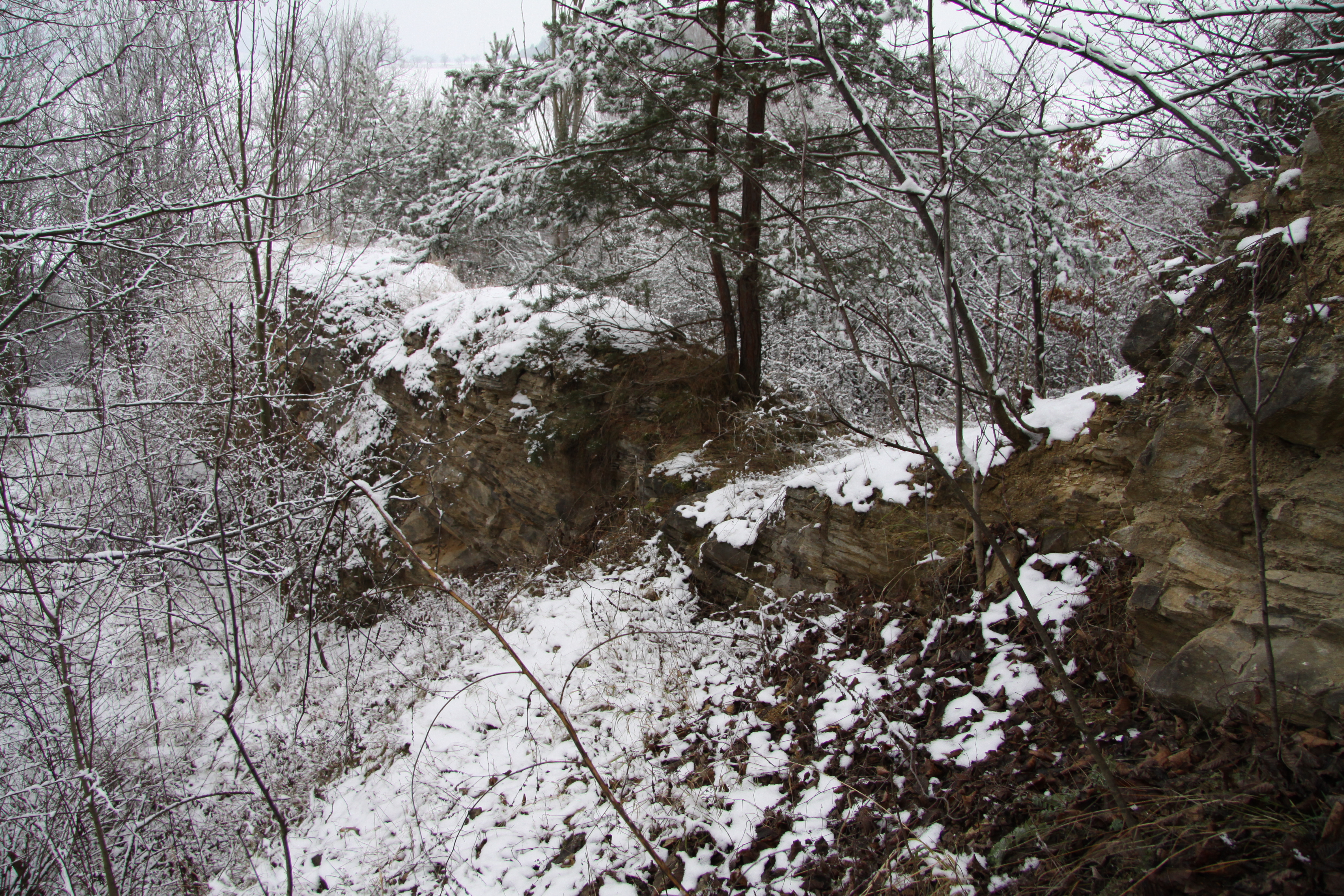 Natural monument Pastvina u Přešťovic near Přešťovice village, Strakonice District, Czech Republic